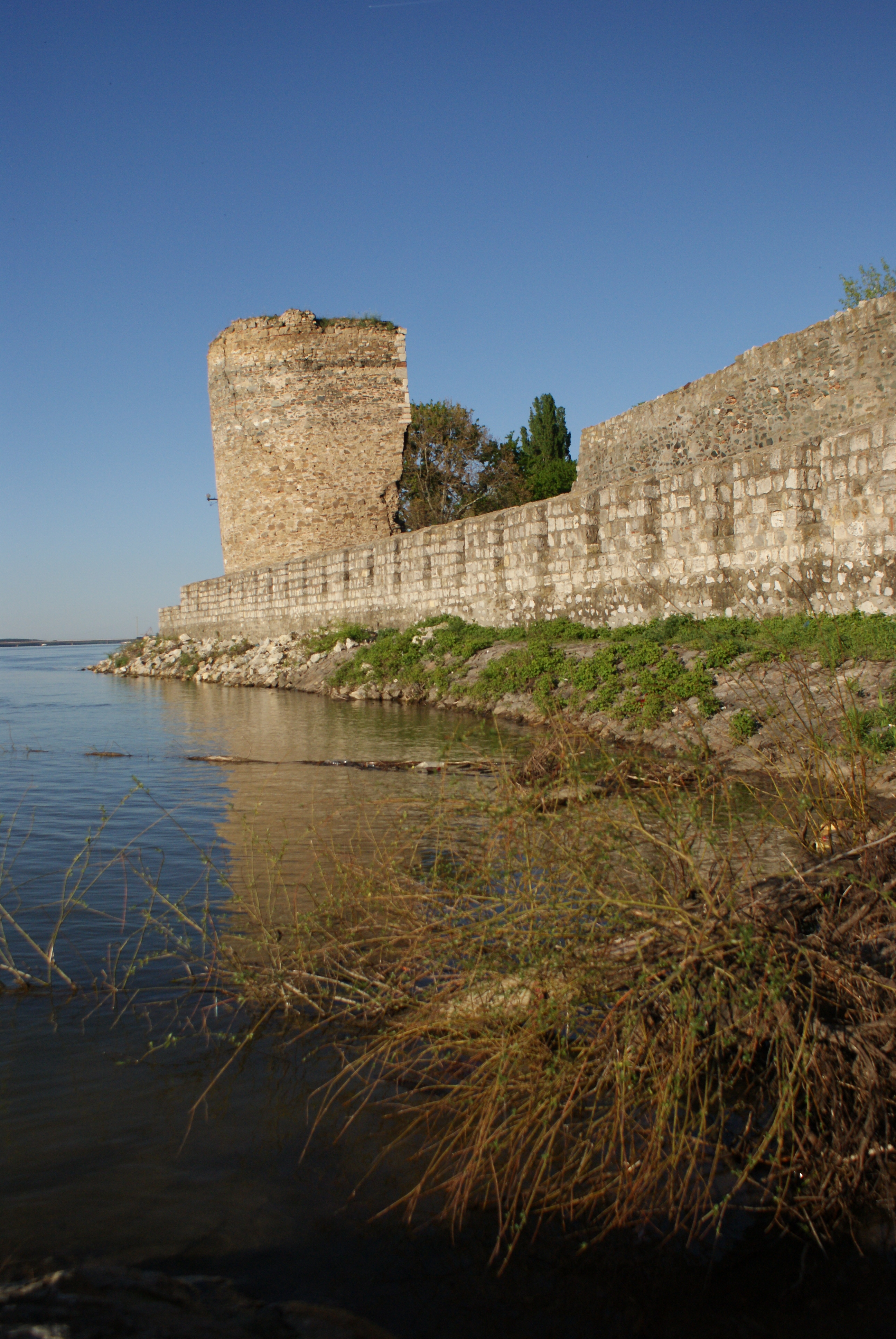 Tower of Smederevo Fortress, view from Danube bank.